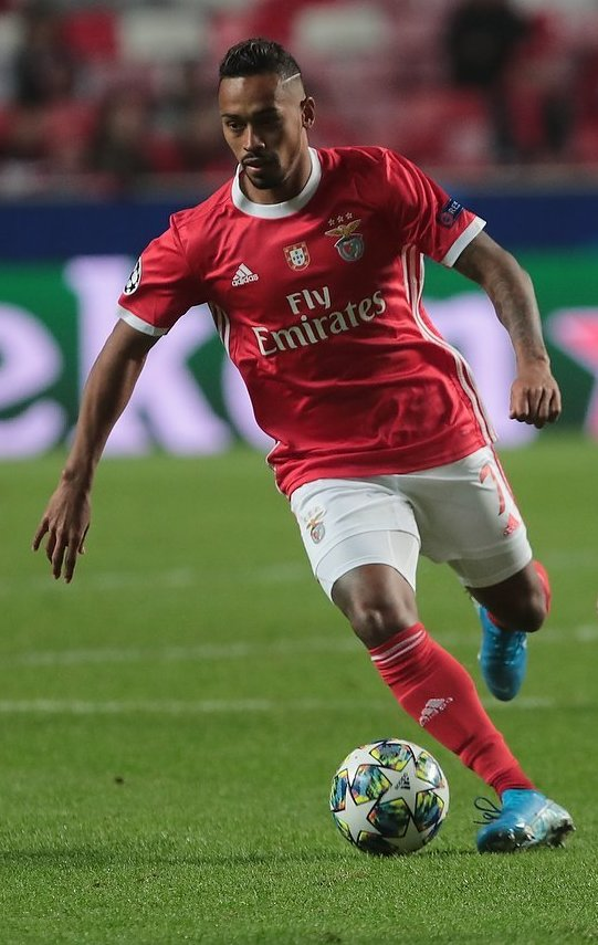 Benfica-Zenit UEFA Champions League 2019/20 (10/12/2019)